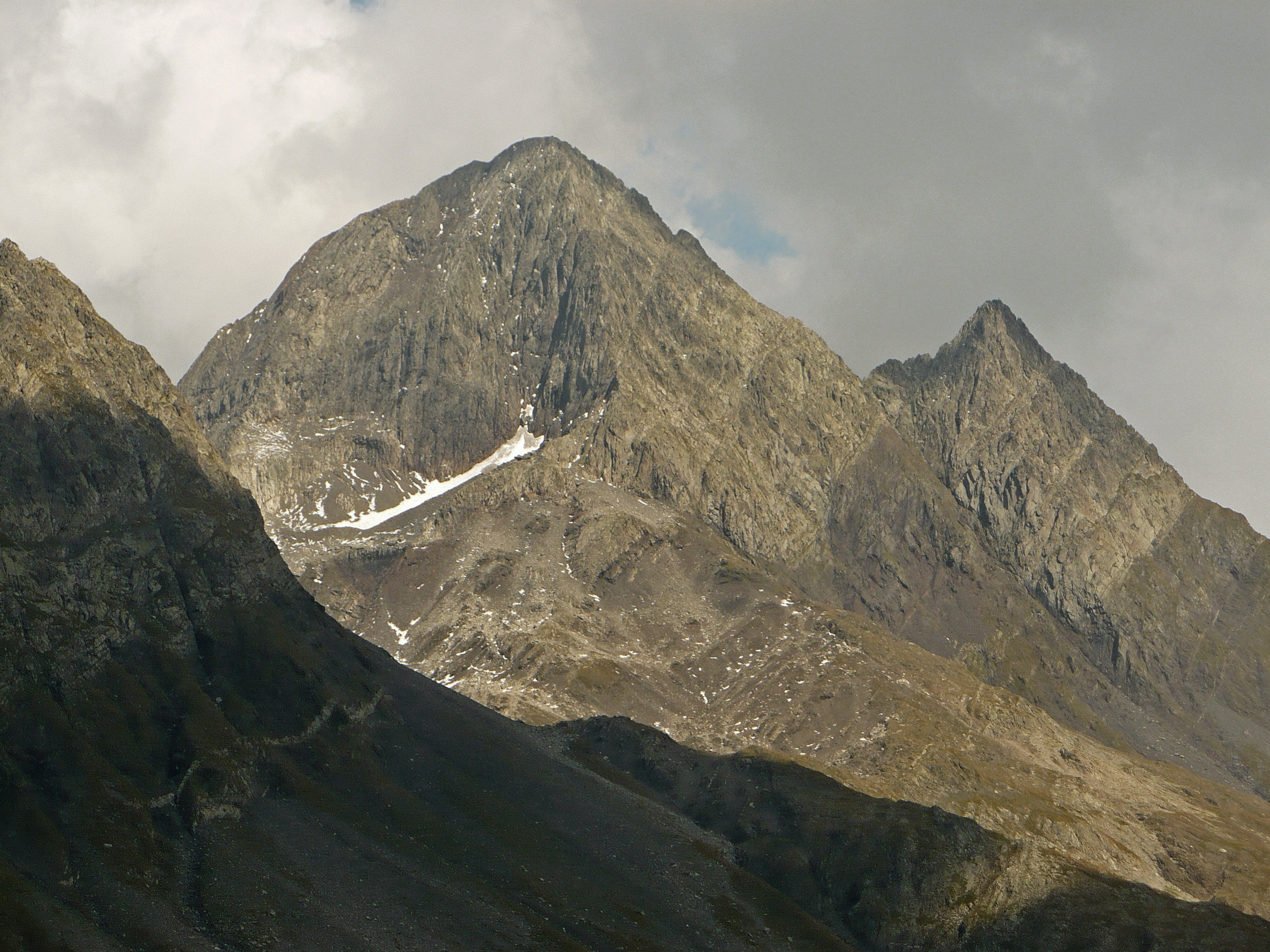 Pizzo del Diavolo di Tenda and Diavolino